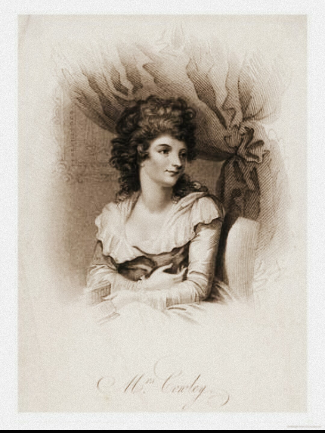 hannah cowley c